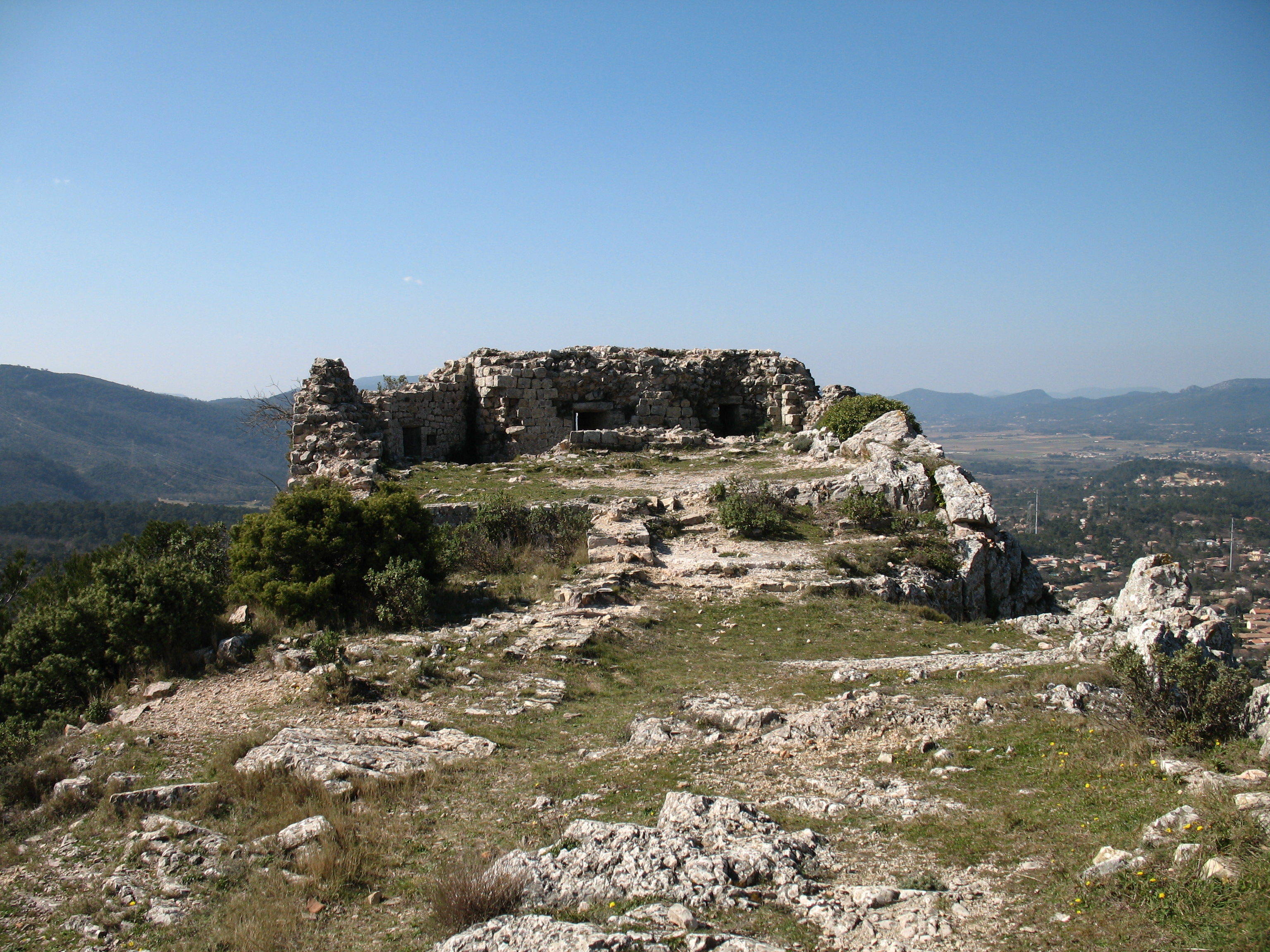 Ruins of St Sauveur Castle - Inside West view (Rocbaron, Var, France)